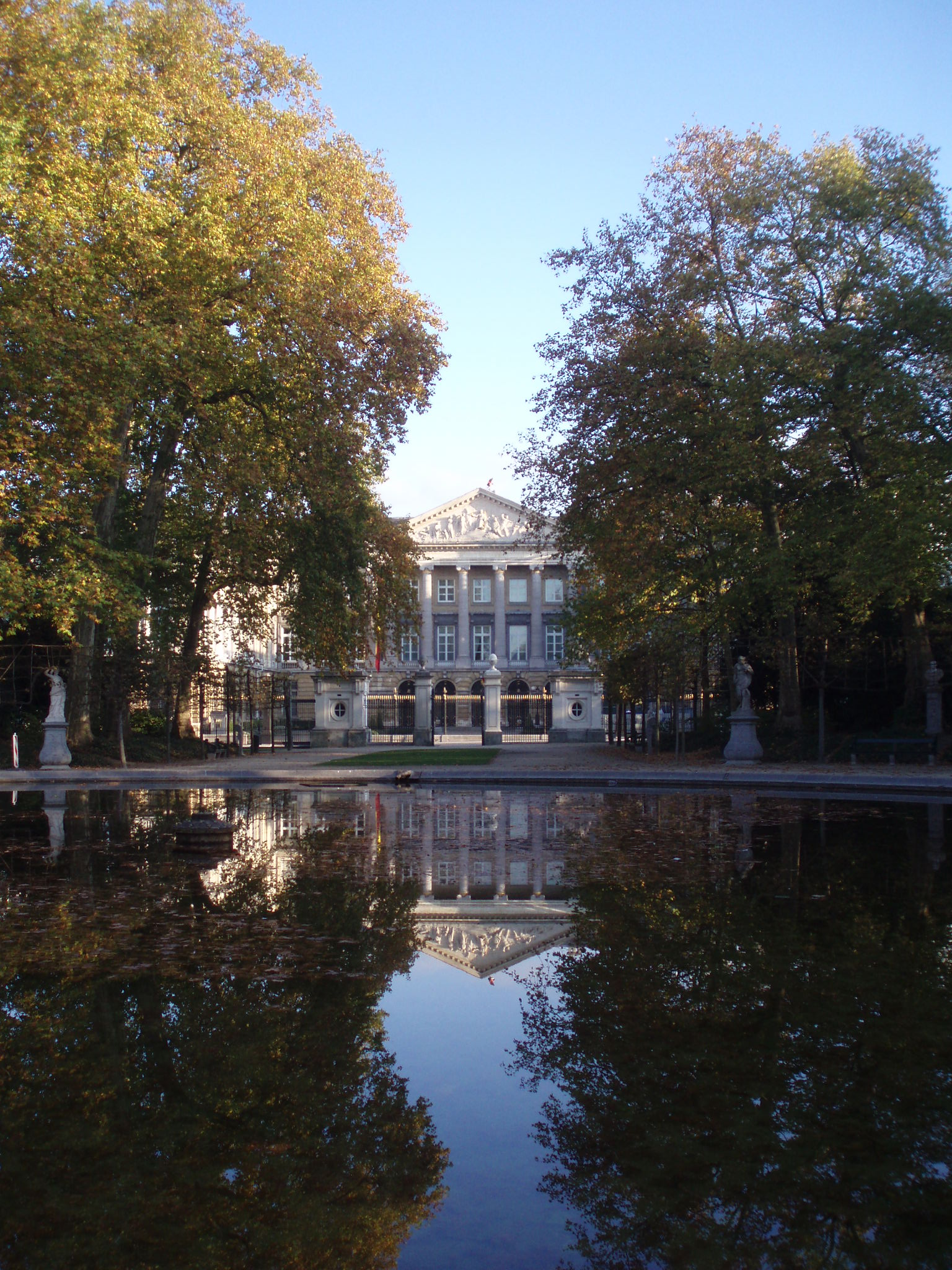 Building of the Parlement of Belgium, Brussels